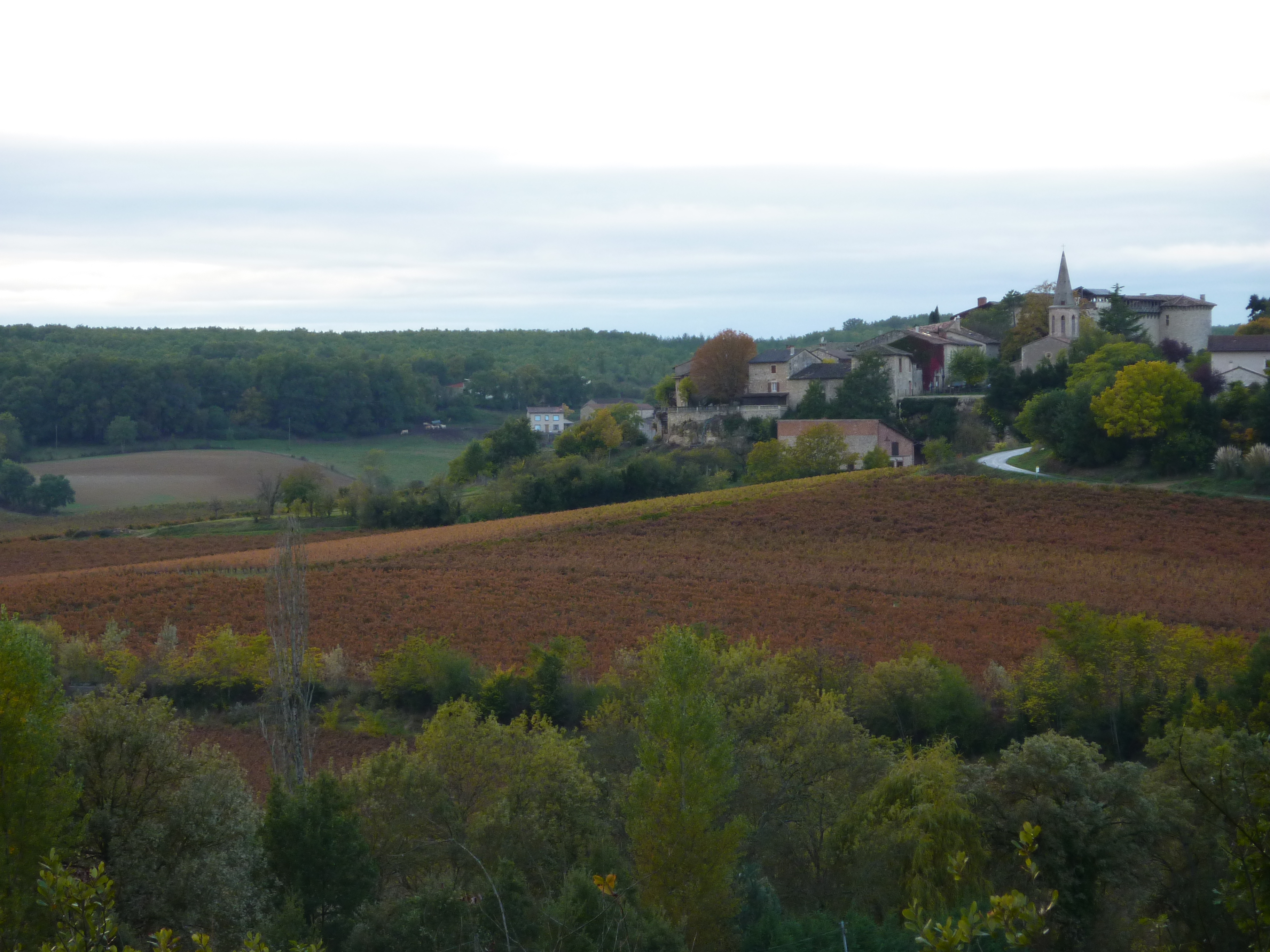 View of Mauriac (Village of Senouillac, Tarn, France) in october 2009